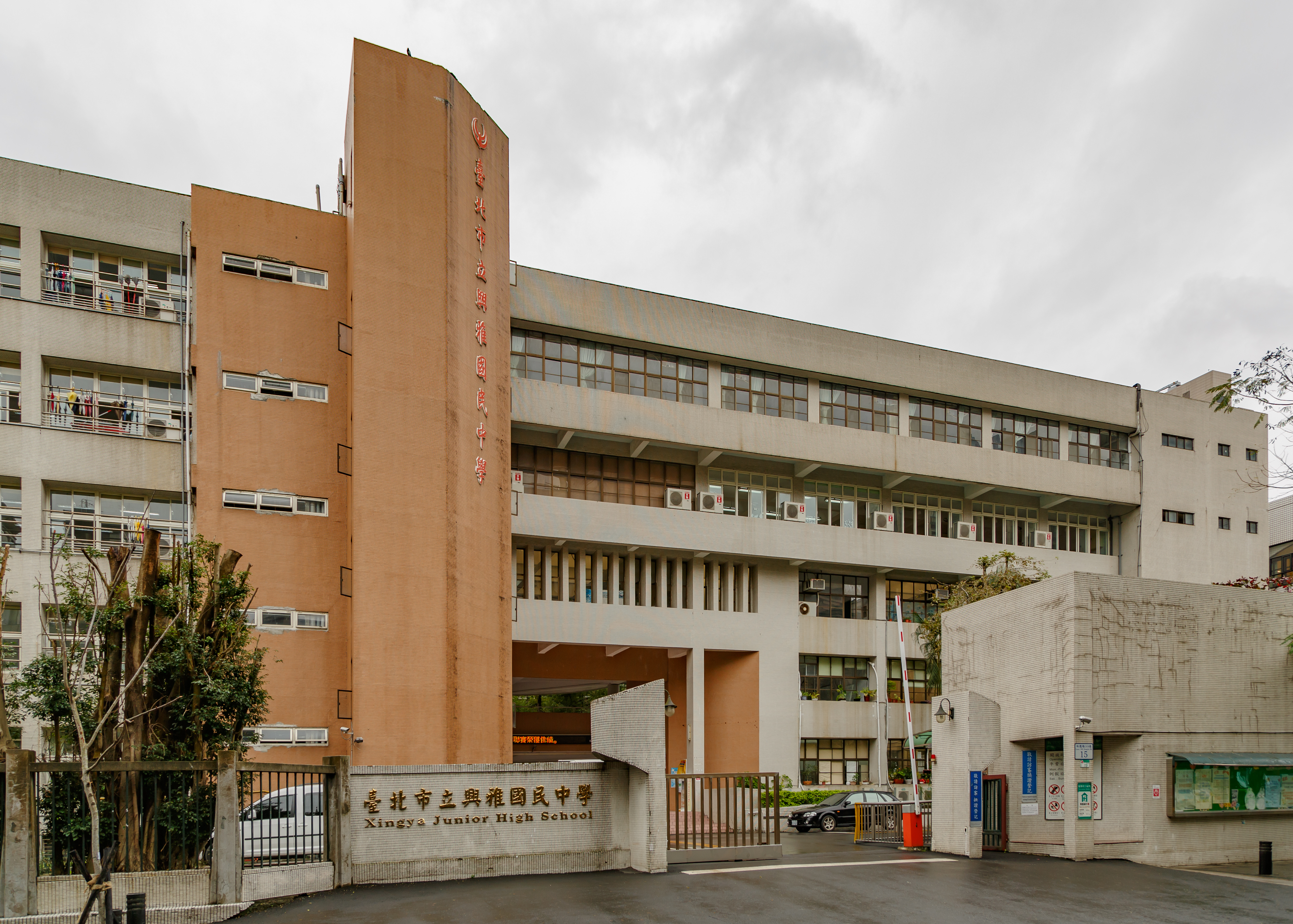 Taipei, Taiwan: Xingya Junior High School